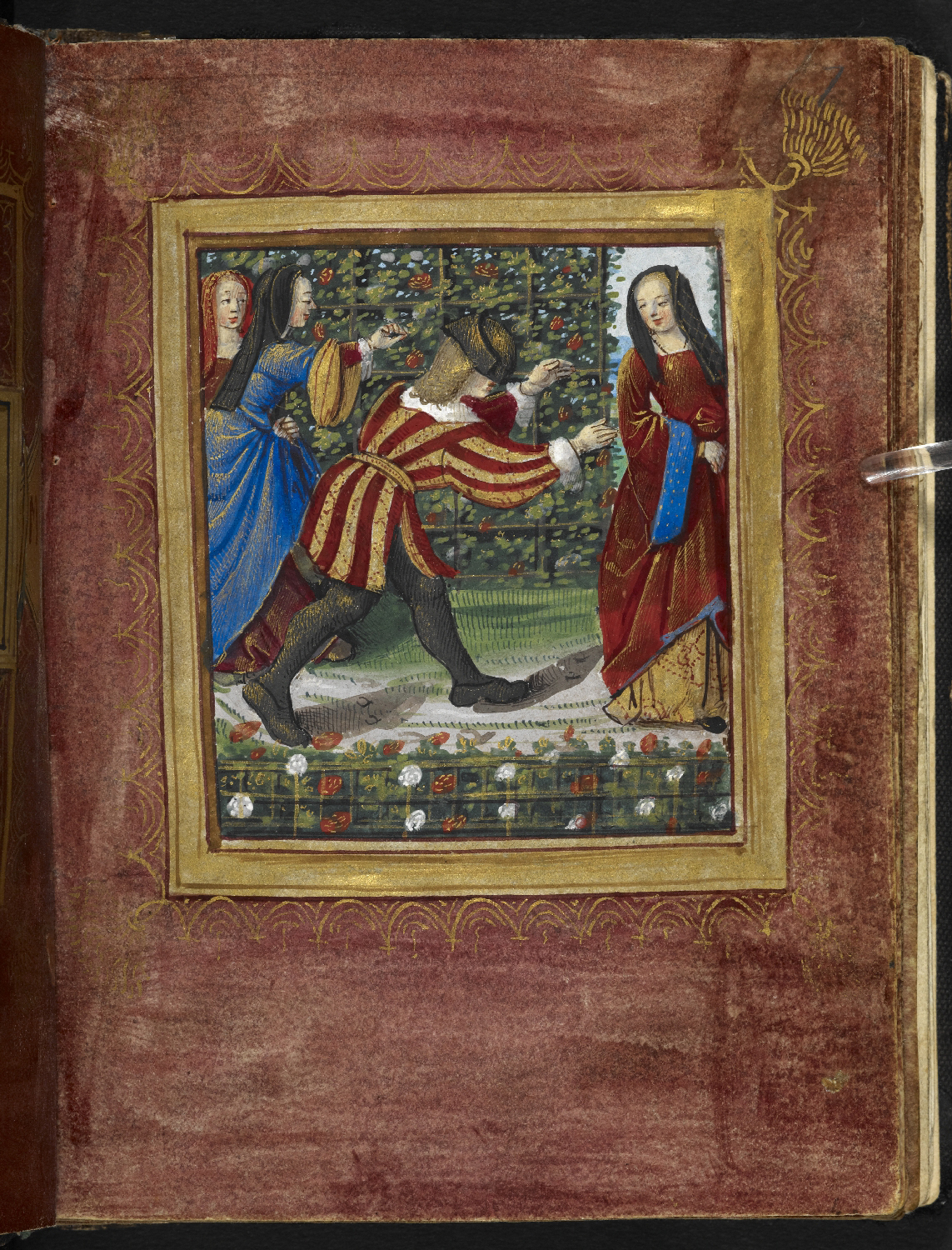 Petit Livre d'Amour, by Pierre Sala (British Library Stowe MS 955) : f. 7r, A blind man's bluff